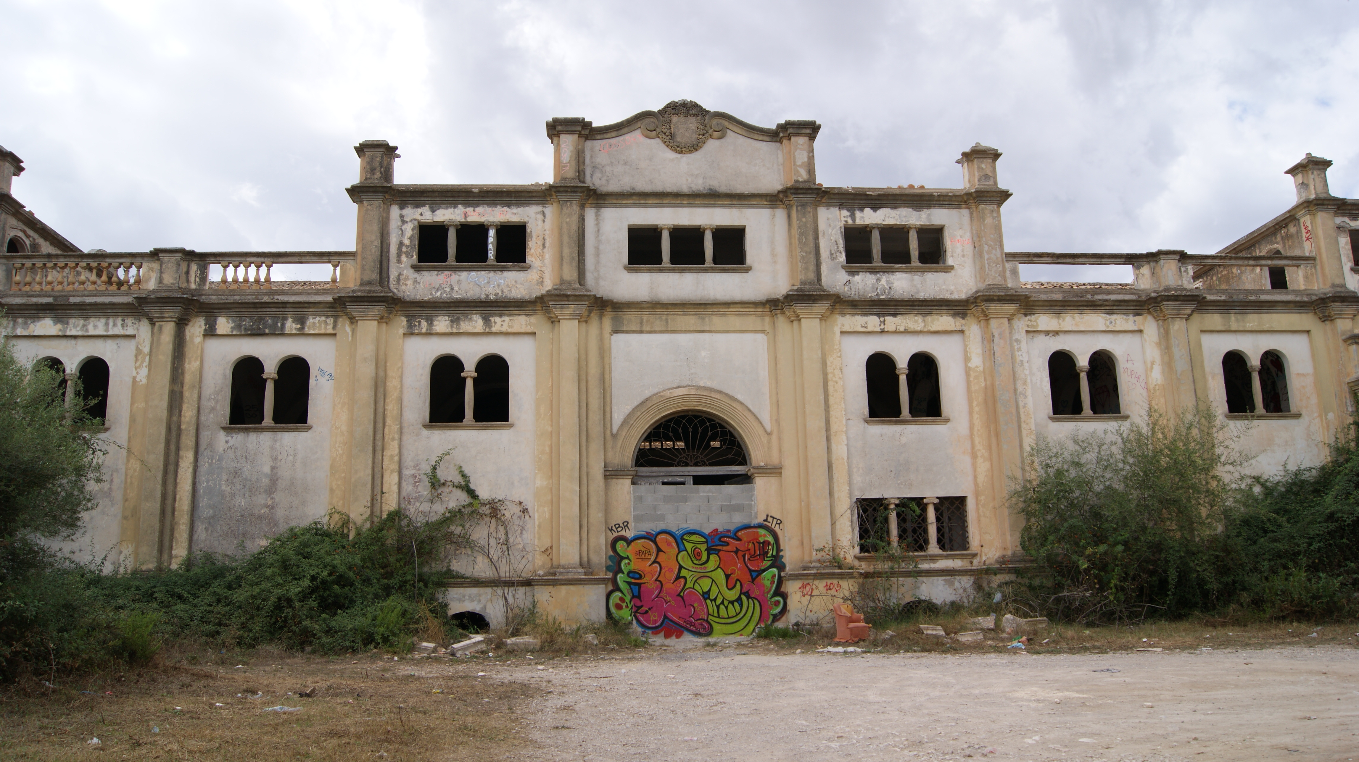 Former Celler cooperation in Fellanitx, Mallorca.